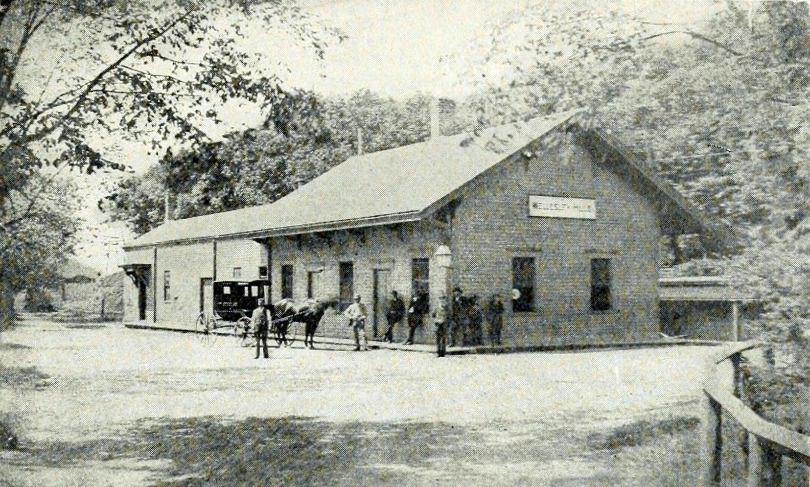 Wellesley Hills station (built as Grantville) around 1884, shortly before it was replaced with a Romanesque stone station